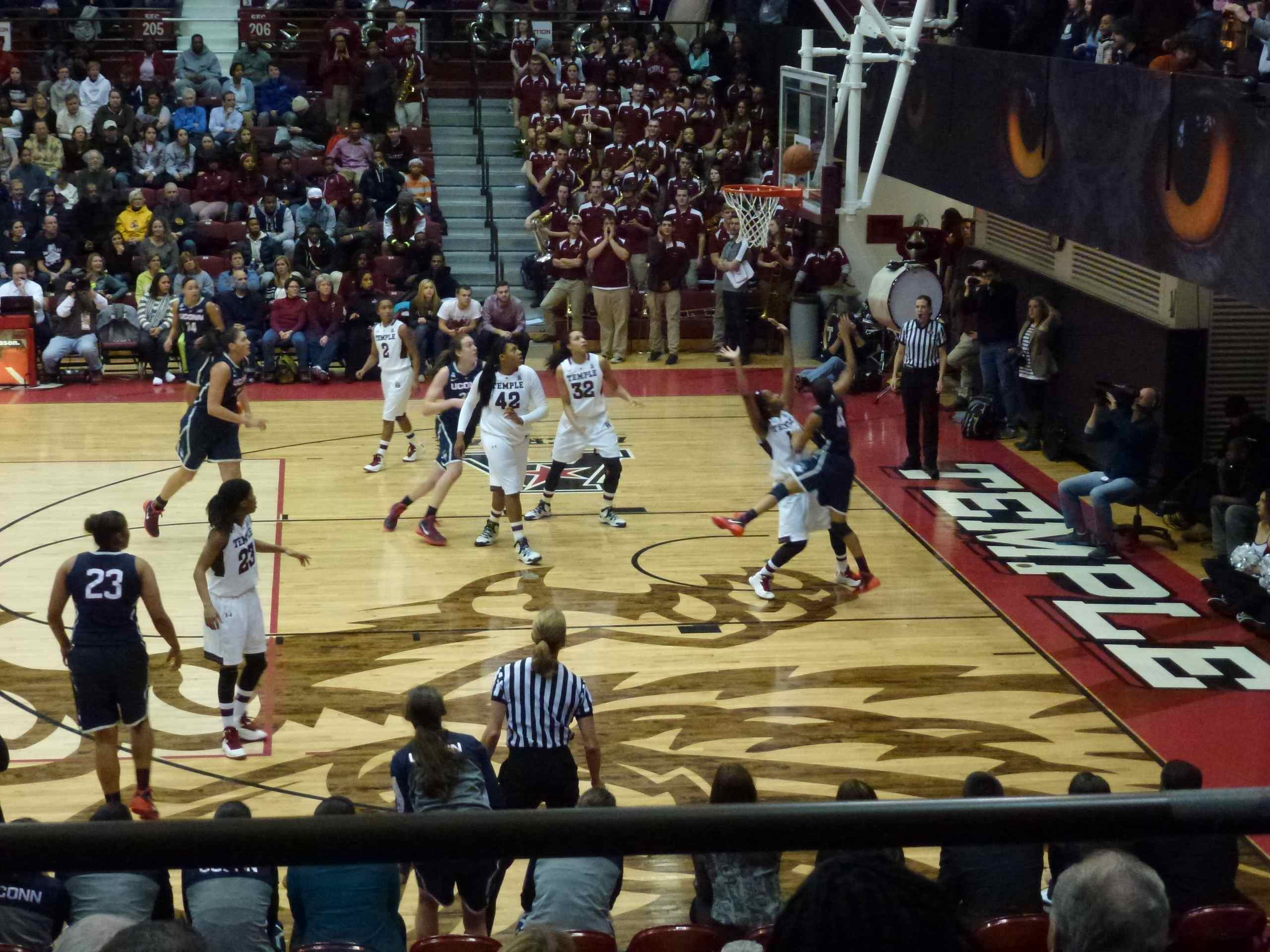 Moria Jefferson (#4) attempts a layup for UConn against Temple in McGonigle Hall, 28 January 2014, a game UConn would win 86–29. Note the owl (mascot) eyes on the facade behind the basket.